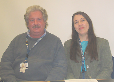 Photograph of Alexander Wilson and Joan Bailey-Wilson.